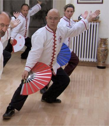 Manuel Joseph in a tangzhuang doing Taiji Fan (Taiji Shan)